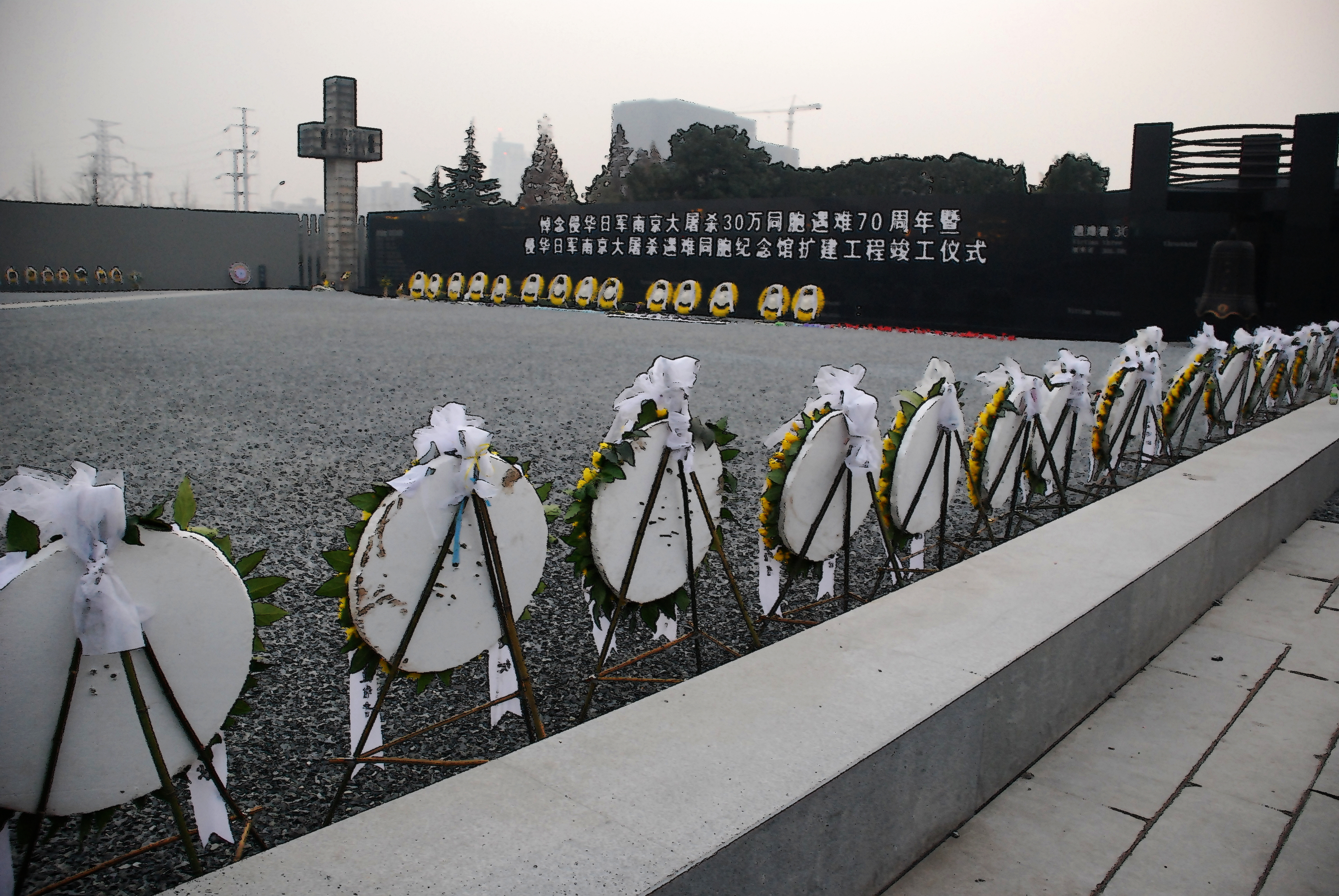 DSC_3124 [2009-06-10] Per request from hyocean1989, changing licensing of this photo to: Attribution-ShareAlike Creative Commons.